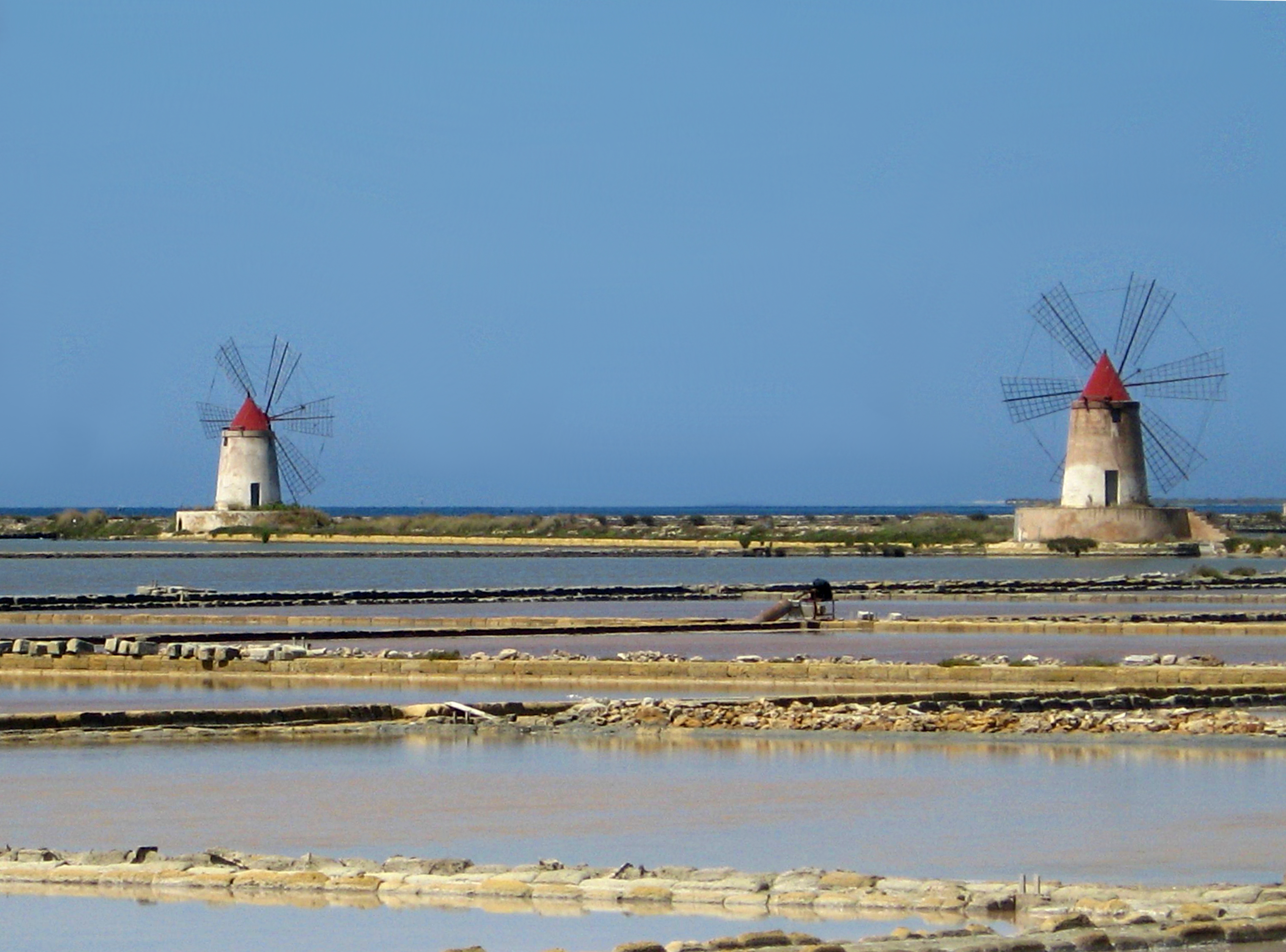 Windmills in the salt pans of Mothia - Sicily (Italy)